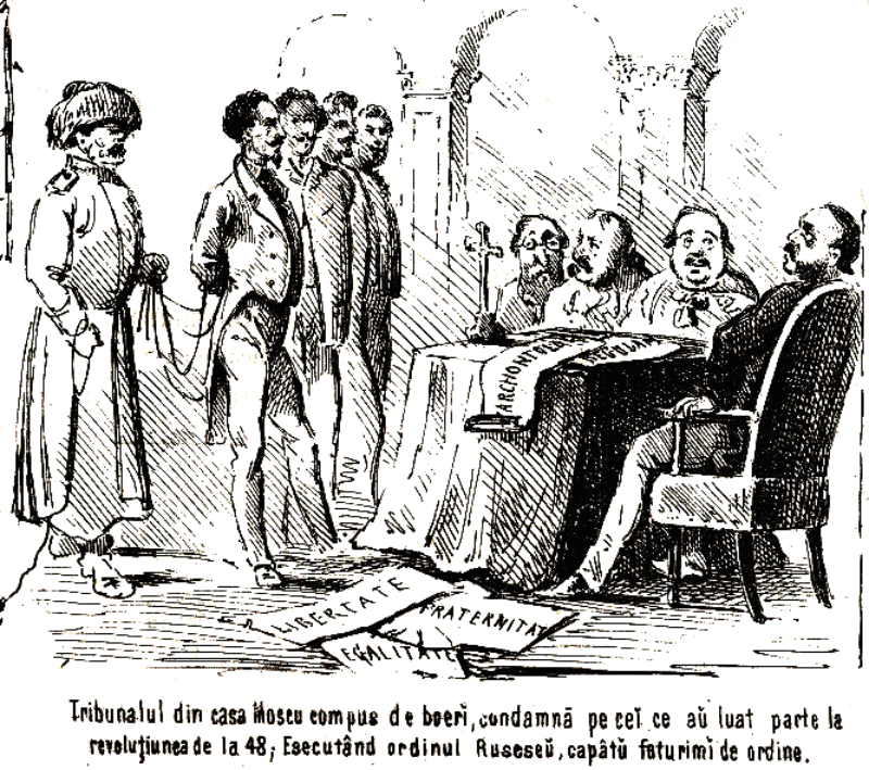 Cartoon in the Romanian liberal gazette Ghimpele, depicting the quelling of the 1848 Wallachian Revolution by Russian troops and boyar aristocrats. The caption reads: Tribunalul din casa Moscu compus de boerĭ, condamnă pe ceĭ care aŭ luat parte la revoluțiunea de la 48; Esecutând ordinul Rusescŭ, capâtŭ felurimĭ de ordine ("The Tribunal of Moscu house [in Bucharest], formed by the boyars, sentences those who have taken part in the '48 revolution; carrying out the Russian order, they managed to obtain for themselves various orders [of chivalry]."). The boyars are shown gathered around a table which holds Arhondologia ("Register of Ranks") and the Russian-approved constitution, Regulam[entul Organic]. Trampled on the ground is the revolutionary motto, rendered as: Libertate Egalitate Fraternitate ("Liberty Equality Fraternity"; in fact, the revolutionaries had used Libertate Dreptate Frăție, "Liberty Justice Brotherhood").